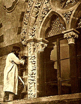 James O'Shea working on the Oxford Natural History Museum 1858, photo attr to Henry Acland